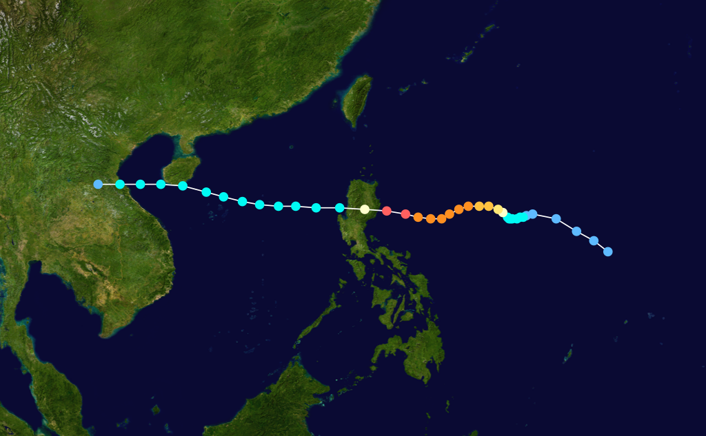 Typhoon Elsie 1989 track. Uses the color scheme from the Saffir-Simpson Hurricane Scale.